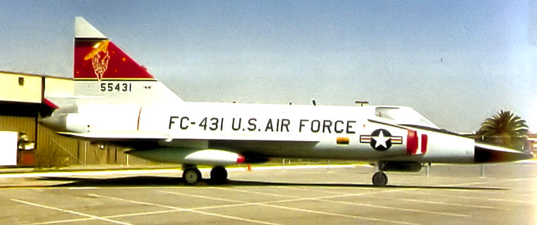 431st Fighter-Interceptor Squadron - Convair F-102A-50-CO Delta Dagger 55-3431. First F-102 delivered to squadron at Zaragoza AB, Spain. Retired to to MASDC as FJ0085 Jan 14, 1970